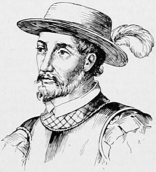 Portrait drawing of Spanish explorer Juan Ponce de León